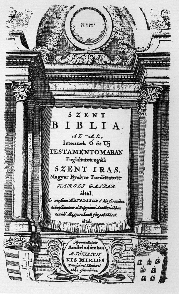 The title page of the amsterdam bible